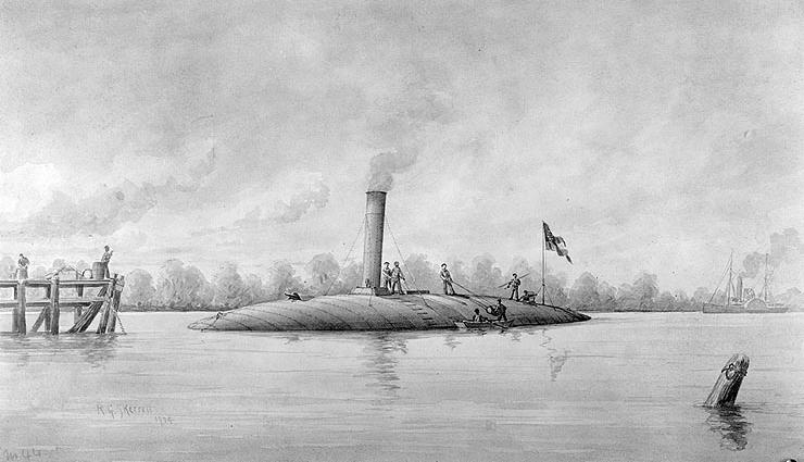 CSS Manassas (1861-62) - Confederate States Navy ironclad ram